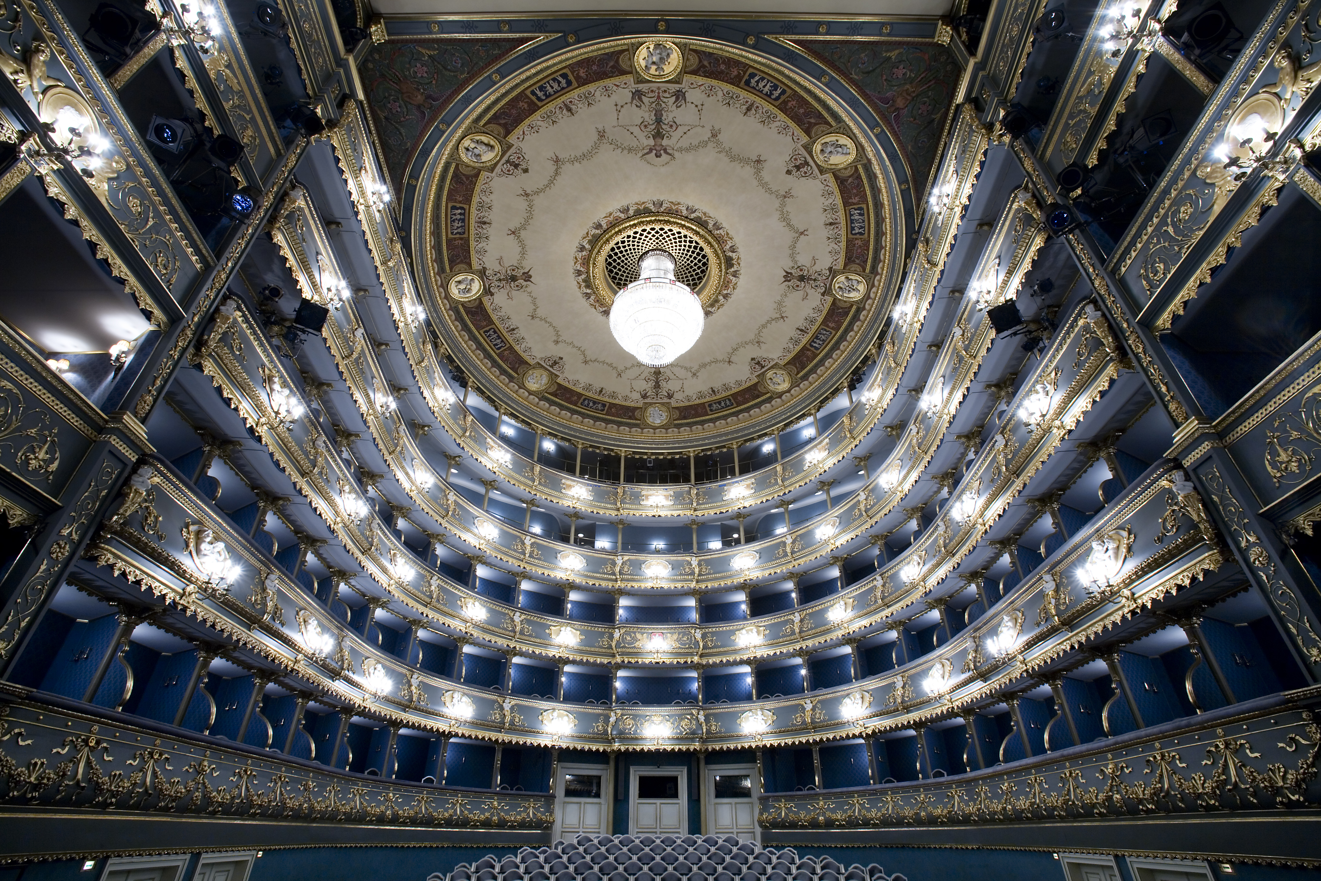 Narodni Divadlo, Estates Theater, Prague